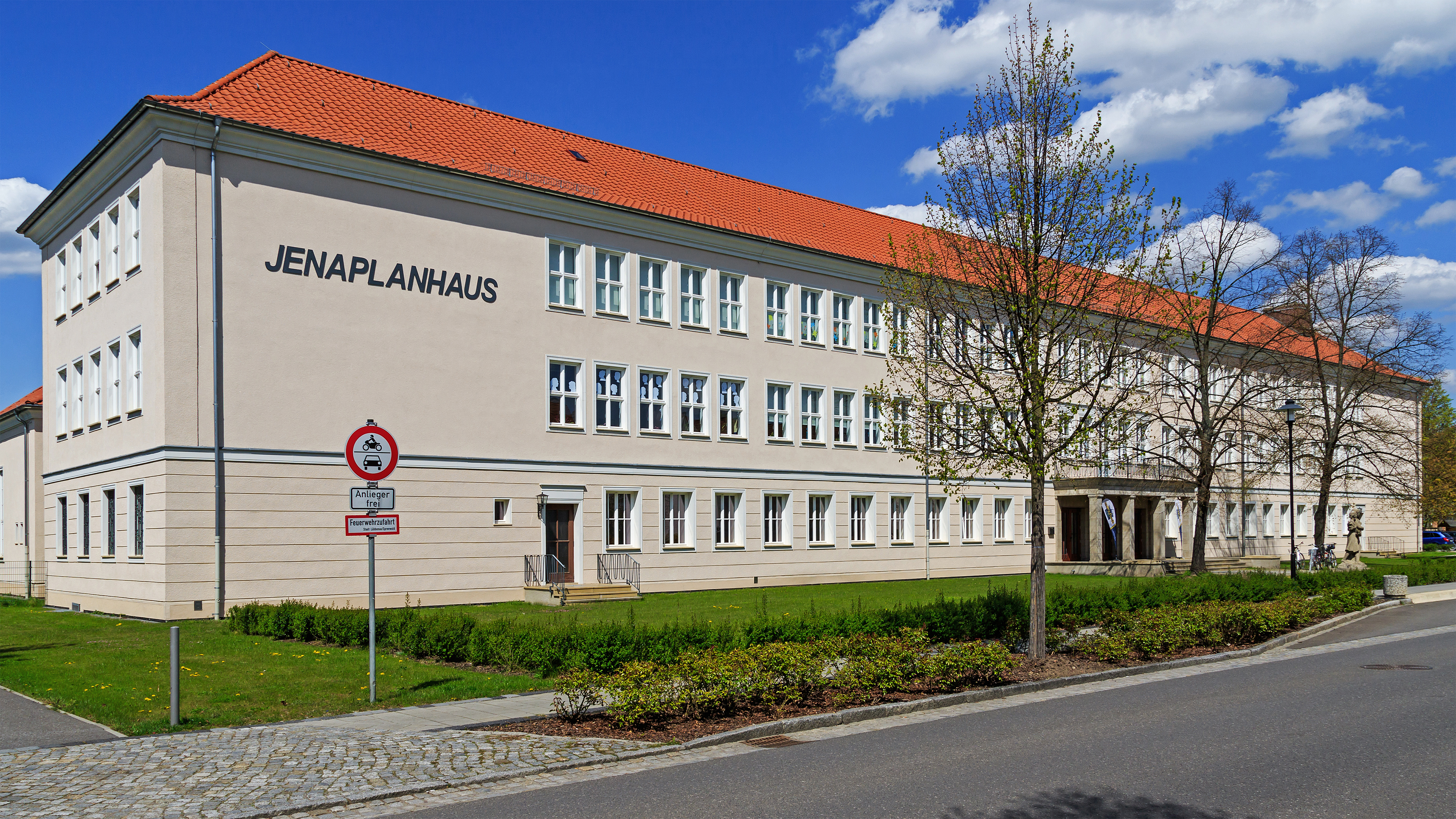 Jenaplanhaus in Lübbenau/Spreewald, Brandenburg, Germany